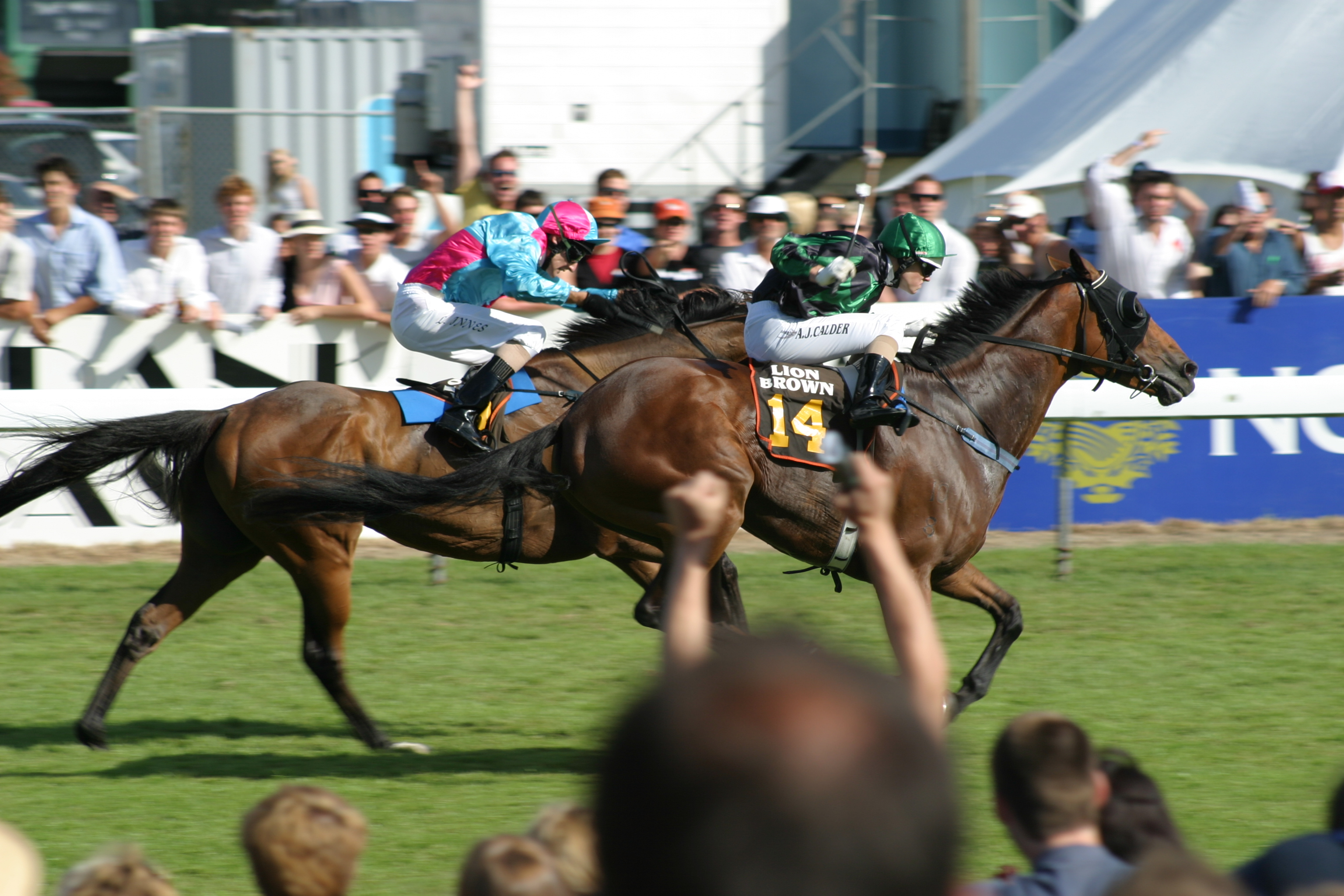 Taken by Paul Ross on Wellington Cup Day 2004. Cluden Creek wins by 3/4 of a length over Bel Air.